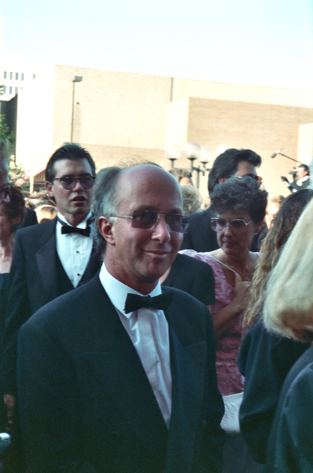 1990 Emmy Awards NOTE: Permission granted to copy, publish, broadcast or post any of my photos, but please credit "photo by Alan Light" if you can. Thanks. Scanned from the original 35MM film negative.